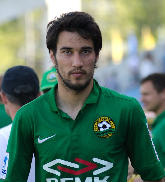 Ivelin Popov with FC Kuban Krasnodar in 2013/